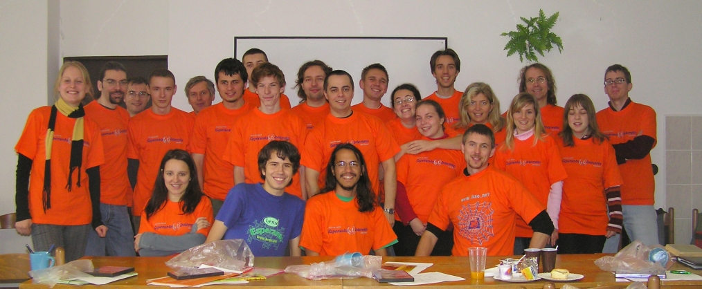 Participants of the international training seminar "Languages in the internet" organized by the Czech Esperanto Youth and E@I in November 2006 in Brno, Czech Republic.